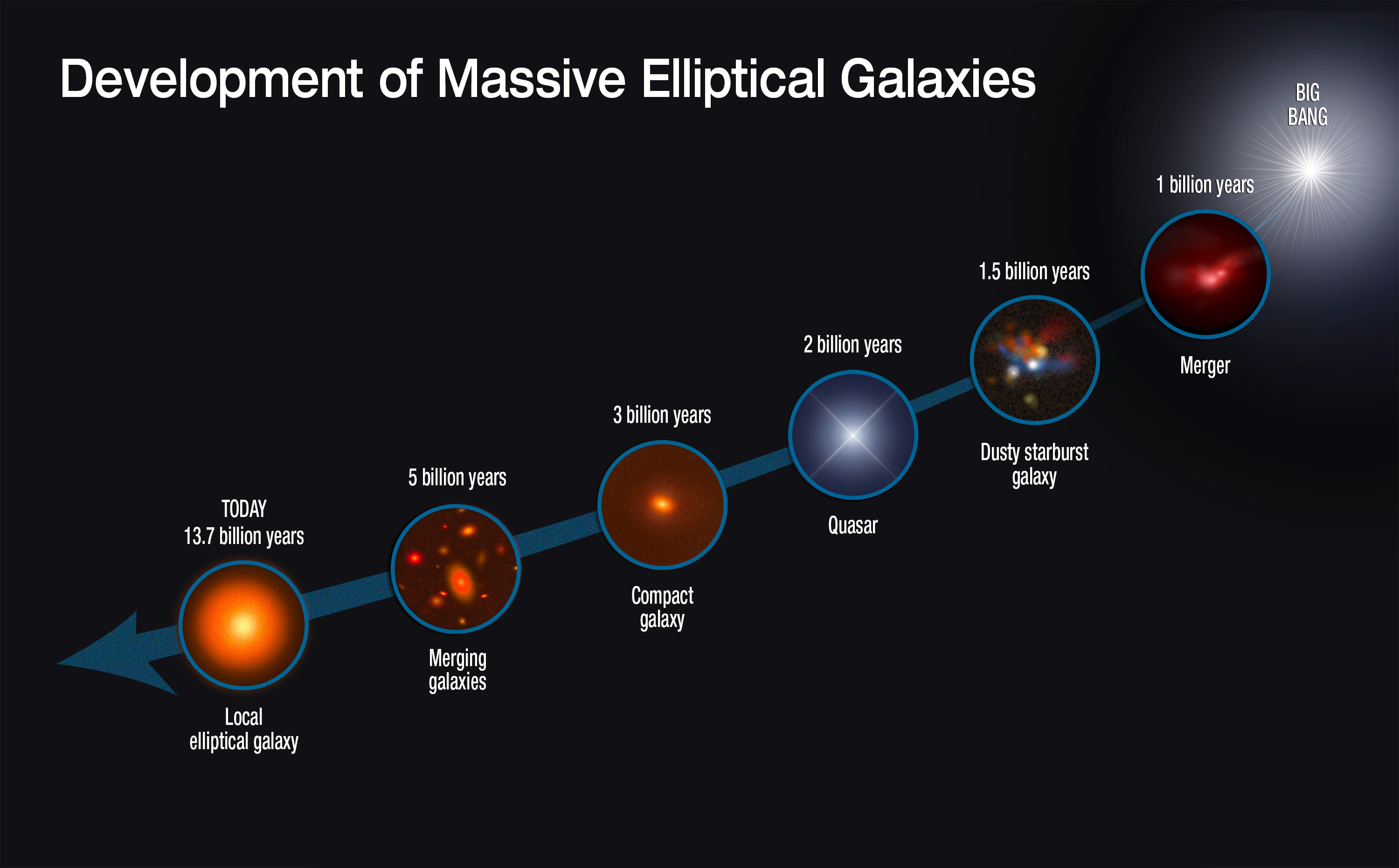 This graphic shows the evolutionary sequence in the growth of massive elliptical galaxies over 13 billion years, as gleaned from space-based and ground-based telescopic observations. The growth of this class of galaxies is quickly driven by rapid star formation and mergers with other galaxies.